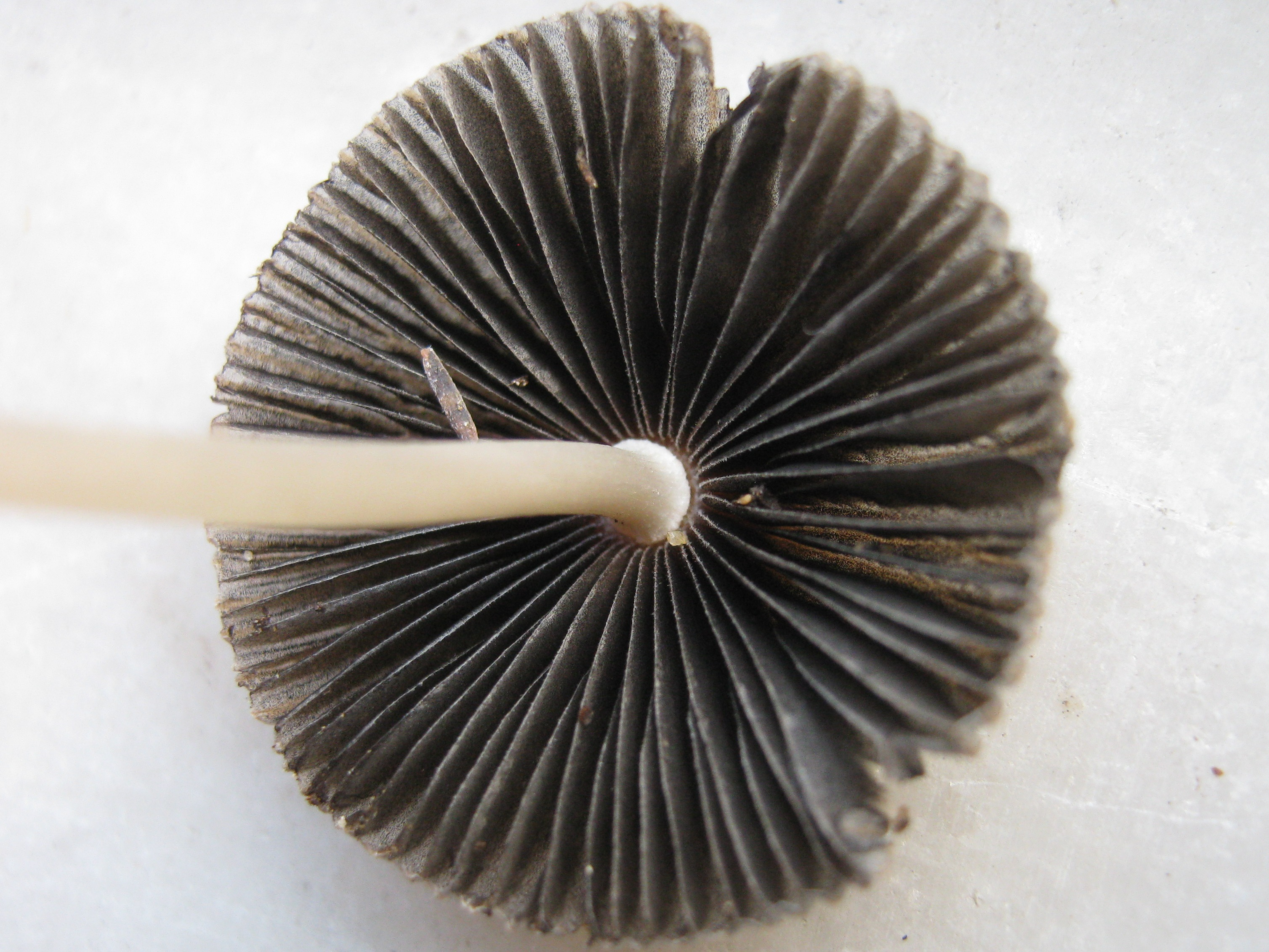 Parasola auricoma (Pat.) Redhead, Vilgalys & Hopple Image location: Sintra, Portugal I already uploaded a photo with the spores and their dimensions, which is one more point in favor of P. auricoma . Recognized by sight For more information about this, see the observation page at Mushroom Observer.